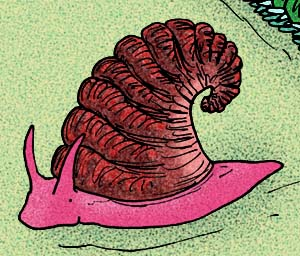 My reconstruction of the Early Cambrian mollusc Latouchella costata, of Siberia (C) Stanton F. Fink